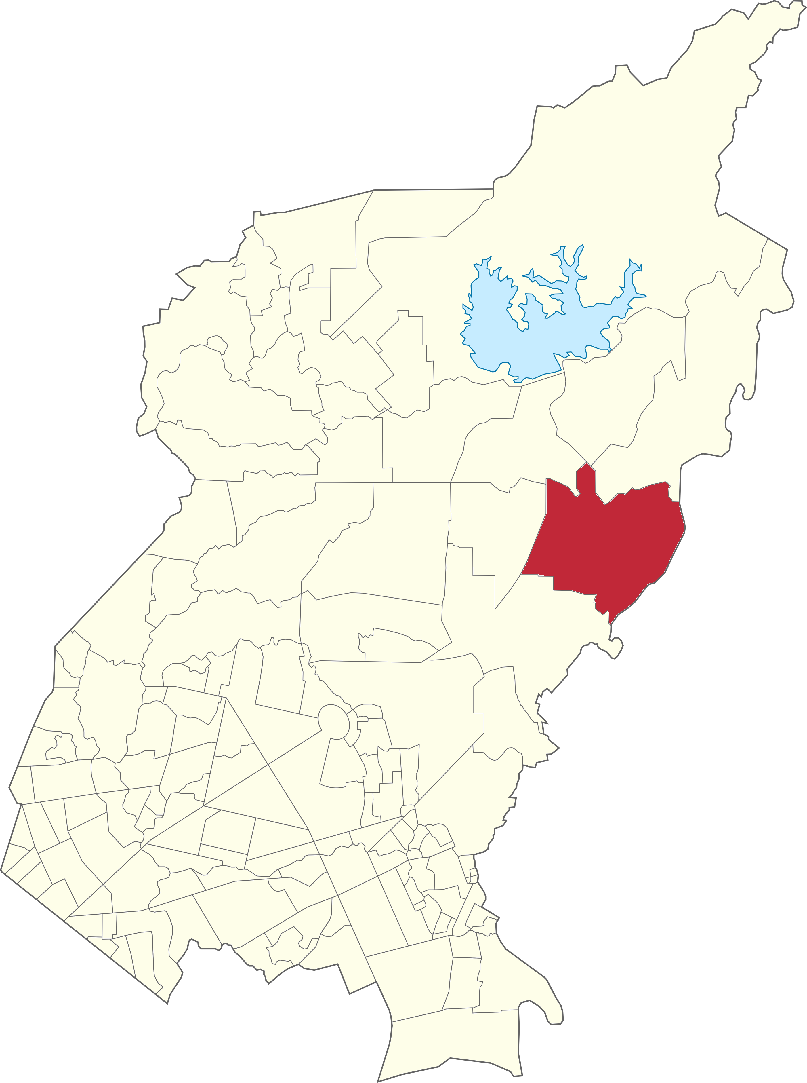 Map showing Batasan Hills in Quezon City